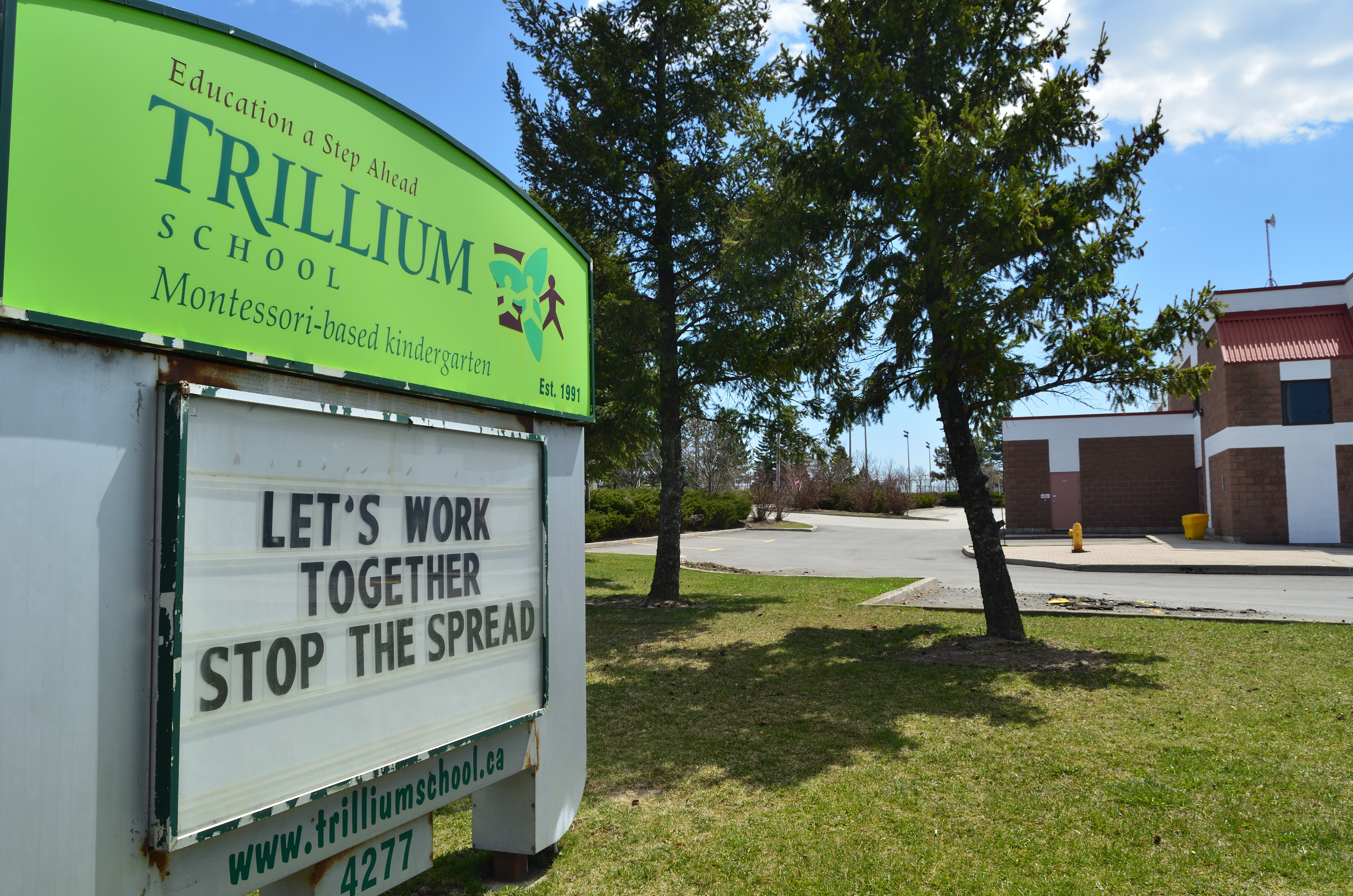 Trillium School (Address: 4277 14th Ave, Markham, ON L3R 0J2) - Let's Work Together Stop the Spread